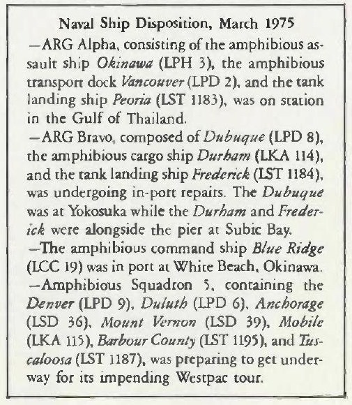 WYSWYG Late in March and late in Blue Ridge's third WestPac, the military and political situation in Cambodia and South Vietnam had BR's operational plans in confusion as it was in the late March of 1972. The military advances of the Khmer Rouge in Cambodia and the NVN proxies in South Vietnam were foreshadowing their eventual fate. The beginning of the end: "The massive influx of civilian refugees into the Da Nang area precipitated a breakdown in law and order. ... on 30 March, that former bastion of American firepower fell to the Communists. ... collapsed without a shot being fired. ... Responsibility for this disaster would be laid at the doorstep of President Thieu. The catastrophic chain of events leading to the surrender of Da Nang resulted directly from the decision to abandon Military Region 2 and the ill-advised withdrawal of the Airborne Division from Military Region 1. ... [74] During the two-week period that Military Region I came apart at the seams, the United States took notice and decided to take action. ... The Marines of the III Marine Amphibious Force were the first to experience the effects of this reaction. ... The command had been concentrating its efforts on Eagle Pull with its sights set on the almost inevitable evacuation of Cambodia. The events in South Vietnam quickly rewrote the script and seemed to indicate that the III Marine Amphibious Force might have to double load its gun and do so without delay! " [75]